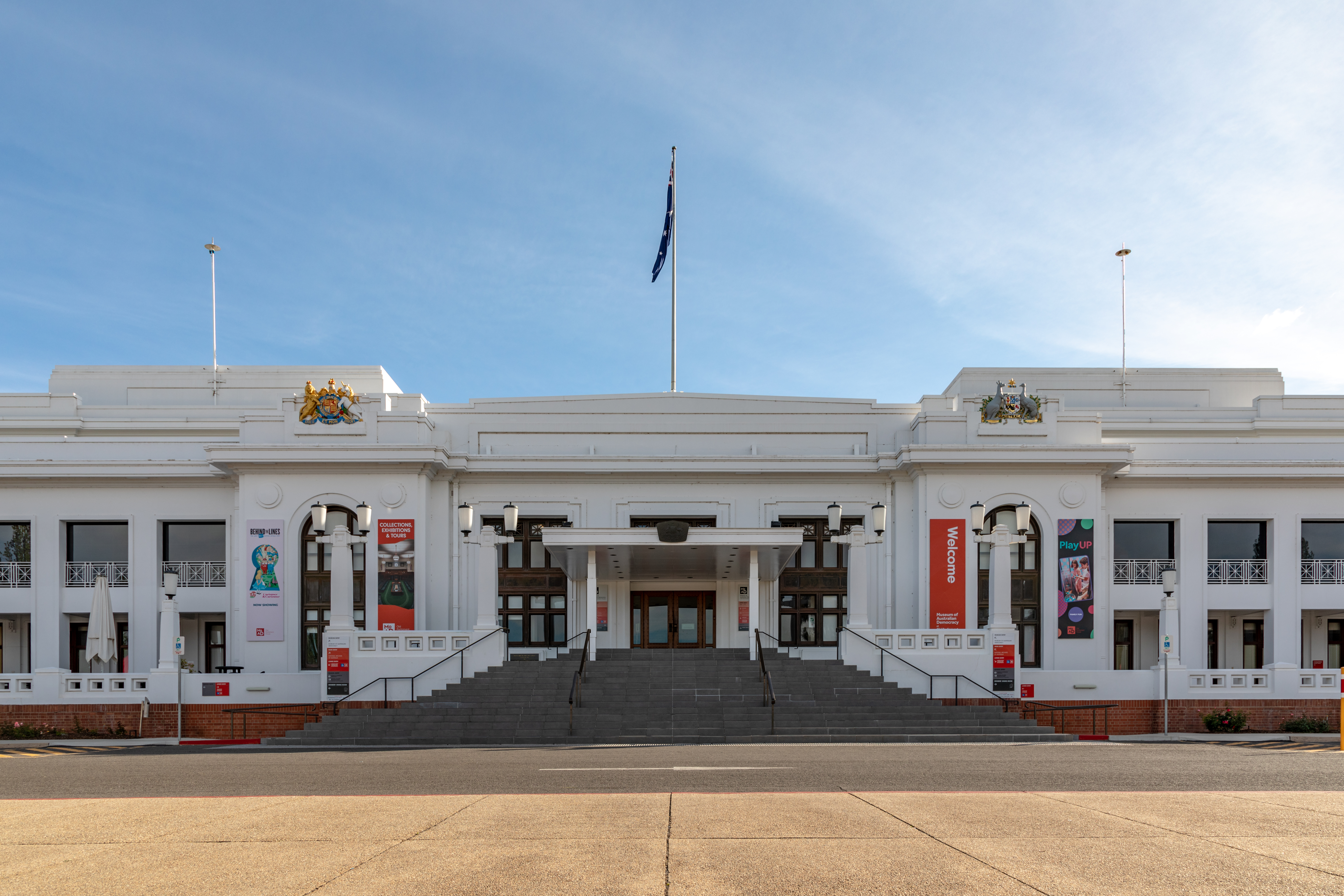 Old Parliament House, Canberra, Australian Capital Territory, Australia